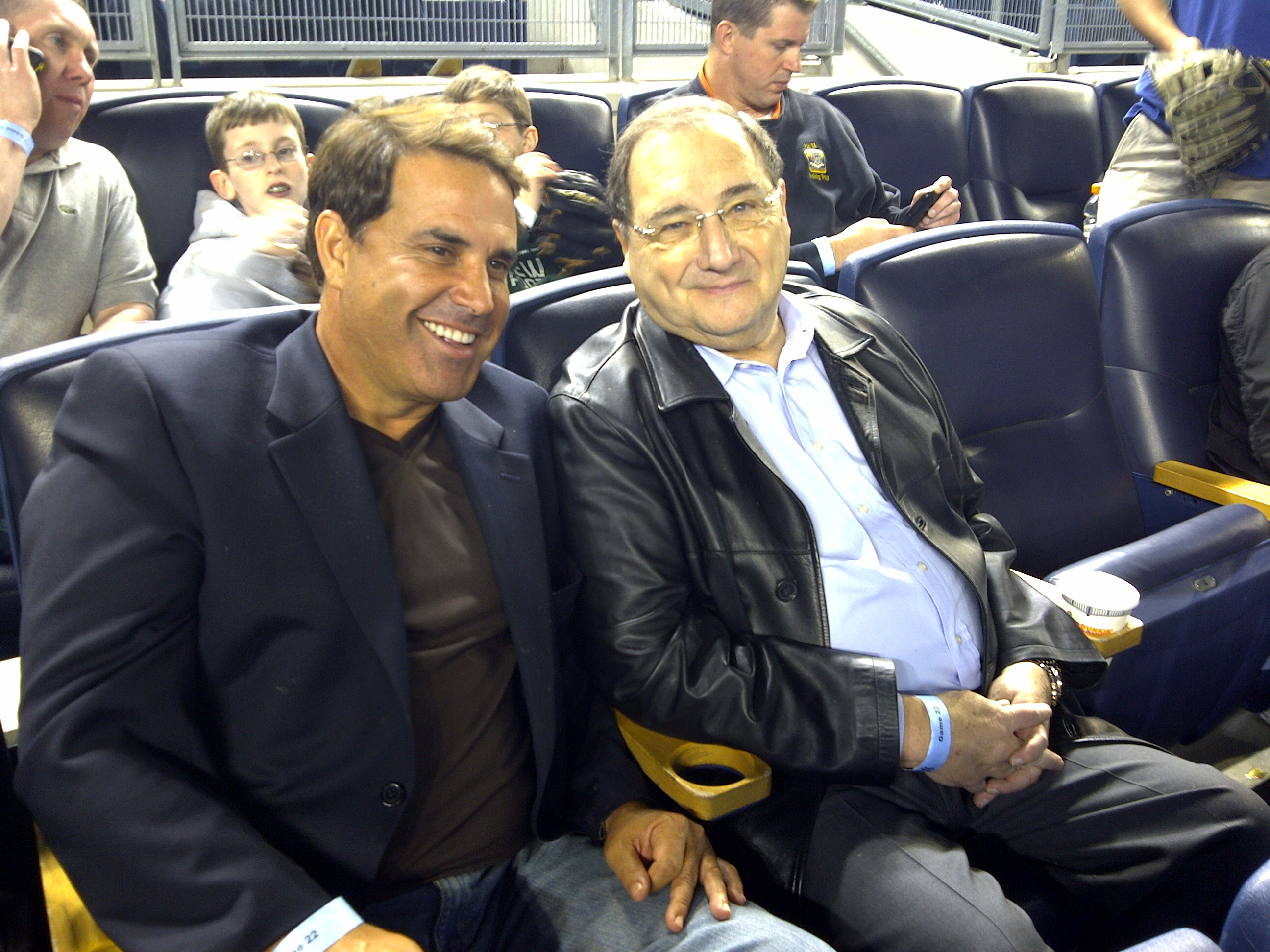 Rick Sanchez and Abraham Foxman at Yankee Game in New York City